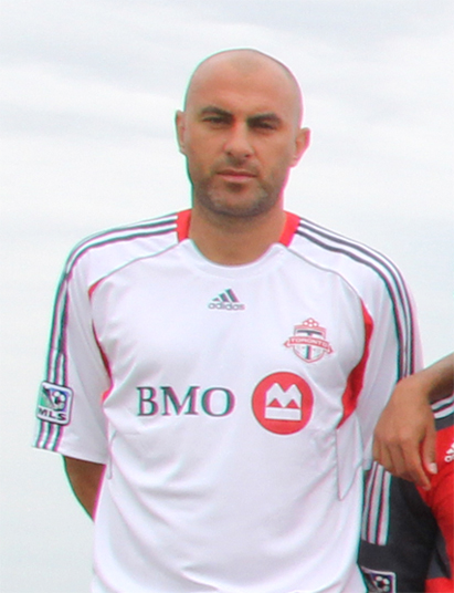 Danny Dichio as TFC Academy head coach in 2012.